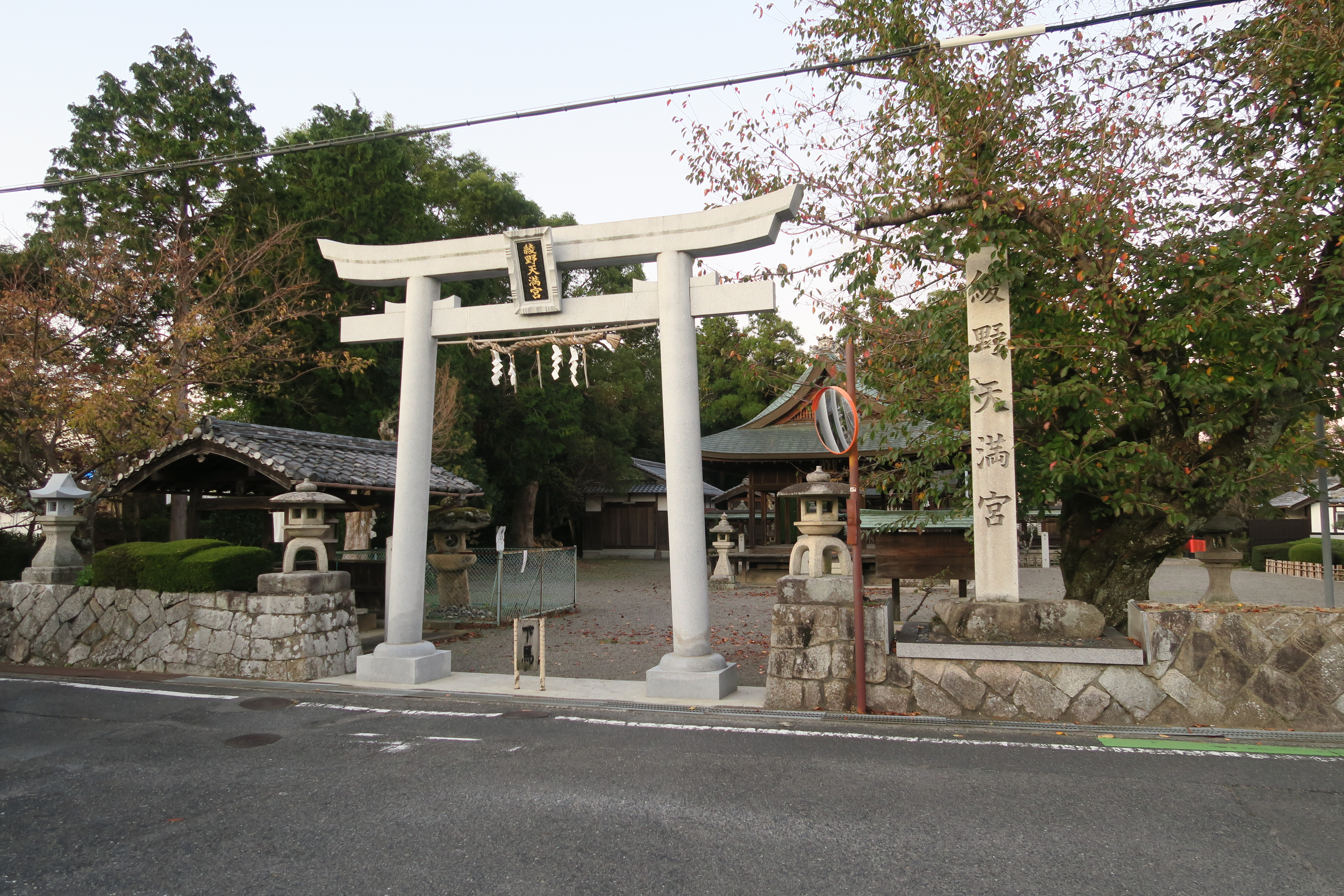 Ayano tenmangû, Koka, Shiga, Japan